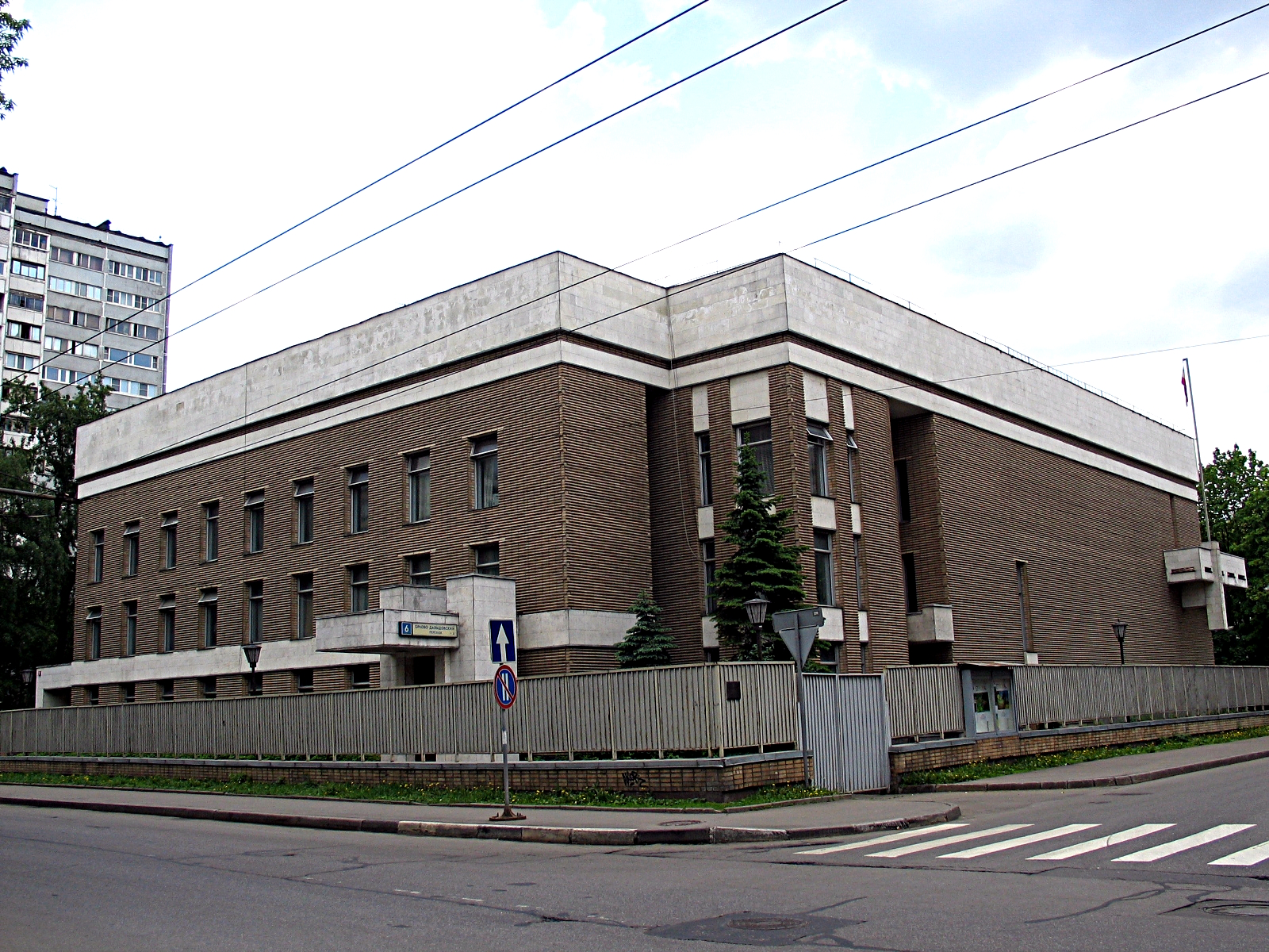 Embassy of Ethiopia in Moscow (Orlovo-Davydovsky Lane, 6)